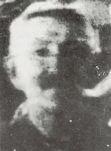 Matt Talbot near the end of his life